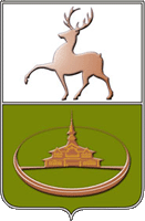 Kulebaki (Nizhny Novgorod oblast), coat of arms (1997)